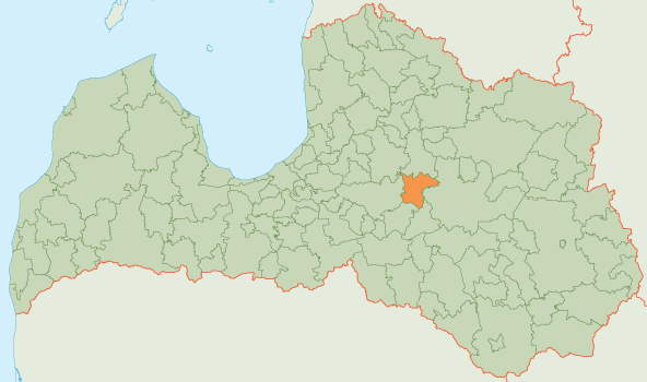 Map of Ērgļi